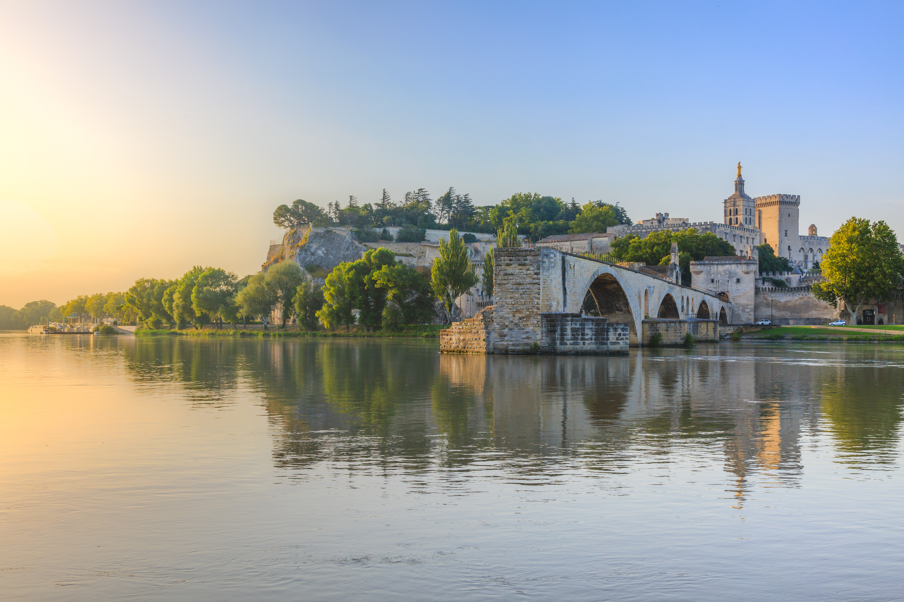 Pont Saint-Bénezet in southeastern France